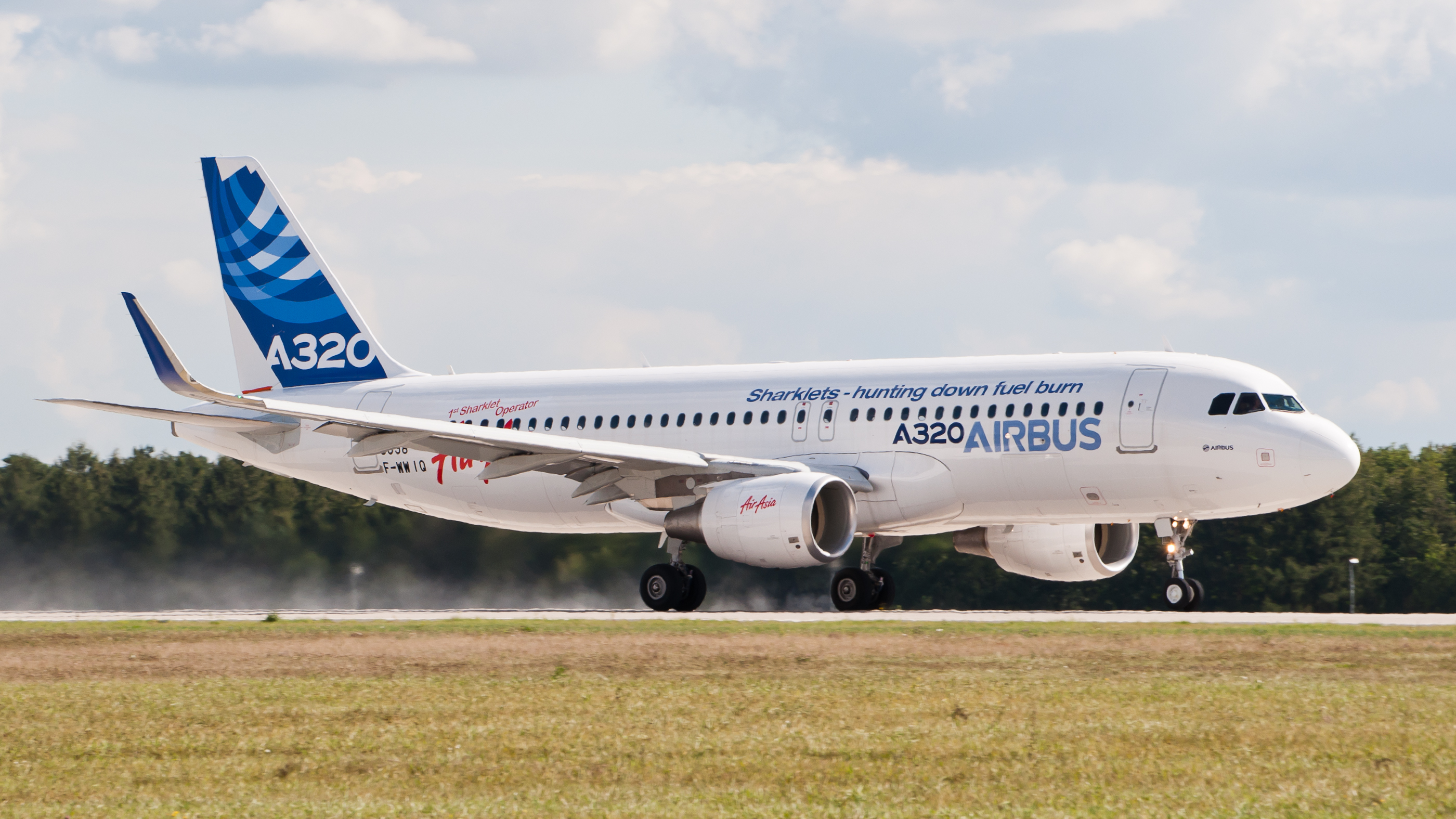 A320 Enhanced (A320E) prototype (F-WWIQ) with sharklets at ILA Berlin Air Show 2012.